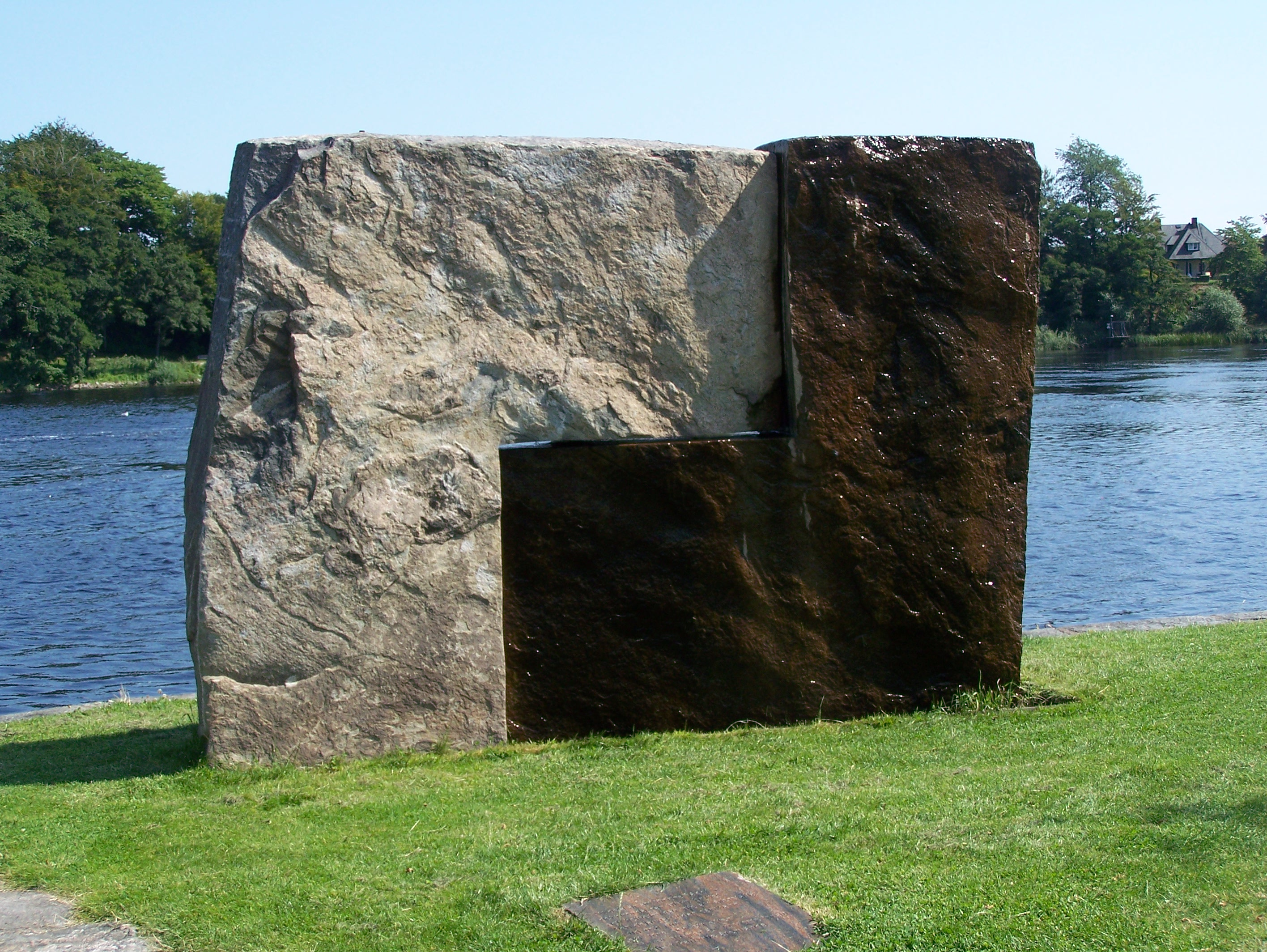 Enhet 1 & 2 was one of the installations in Sculptura 97